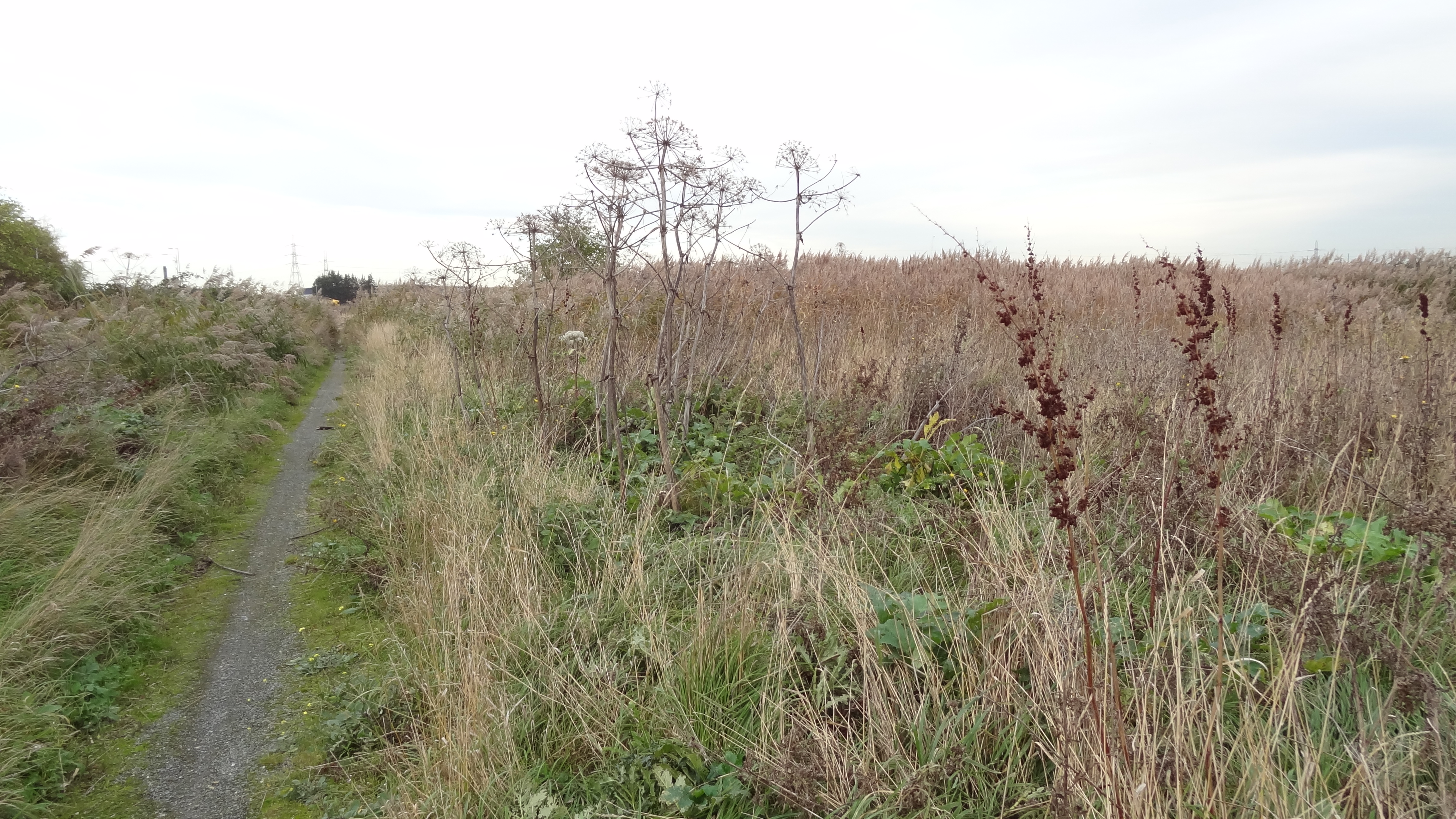 Rainham Marshes Local Nature Reserve in Havering, London